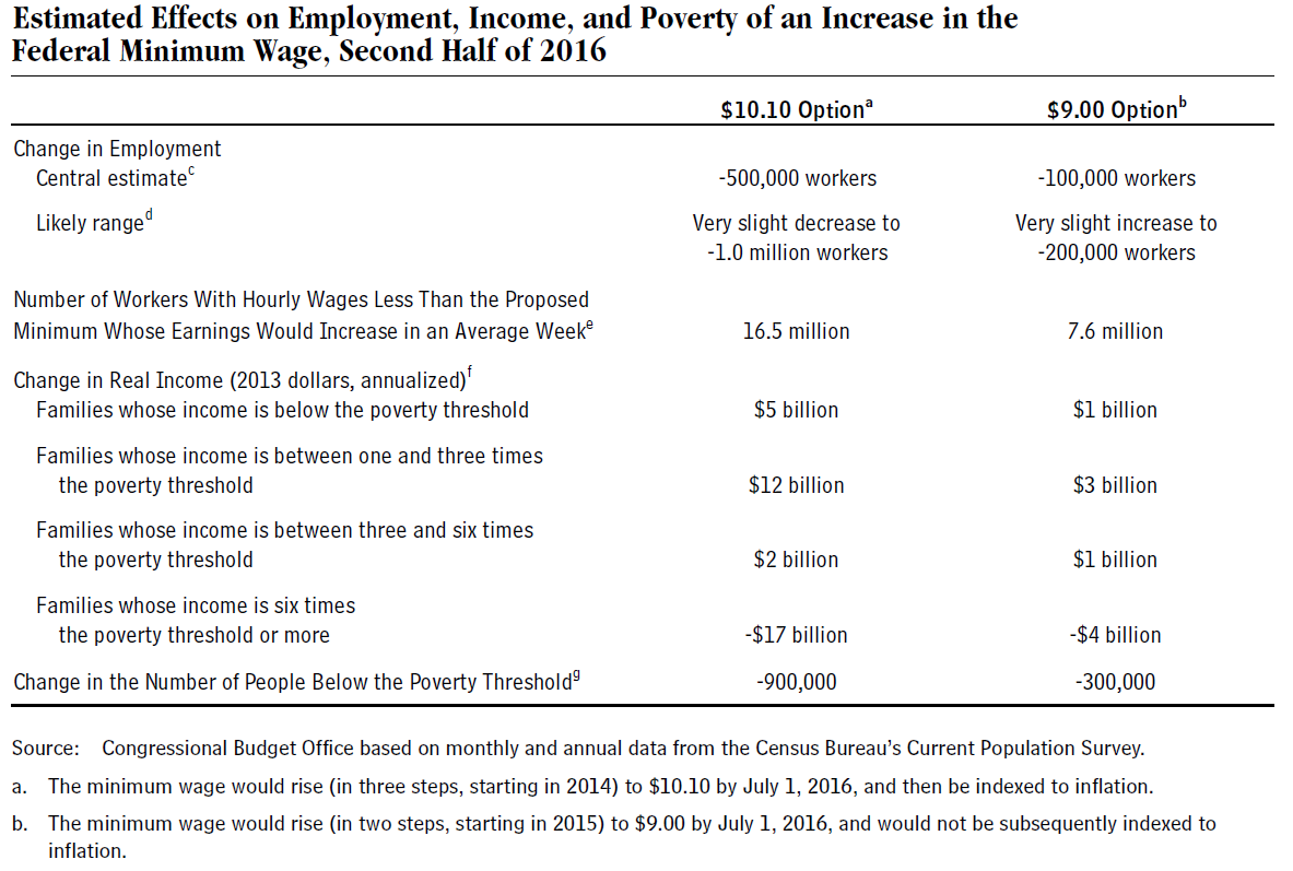 CBO summary table indicating the effects on employment and incomes from raising the minimum wage, under two scenarios.